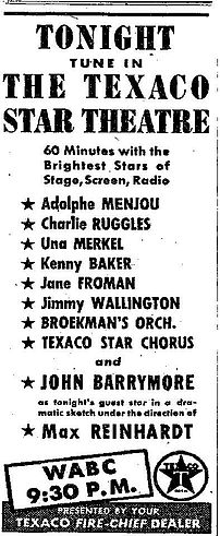 Newspaper ad for Texaco Star Theatre from October 12, 1938 edition of the Yonkers Herald-Statesman.